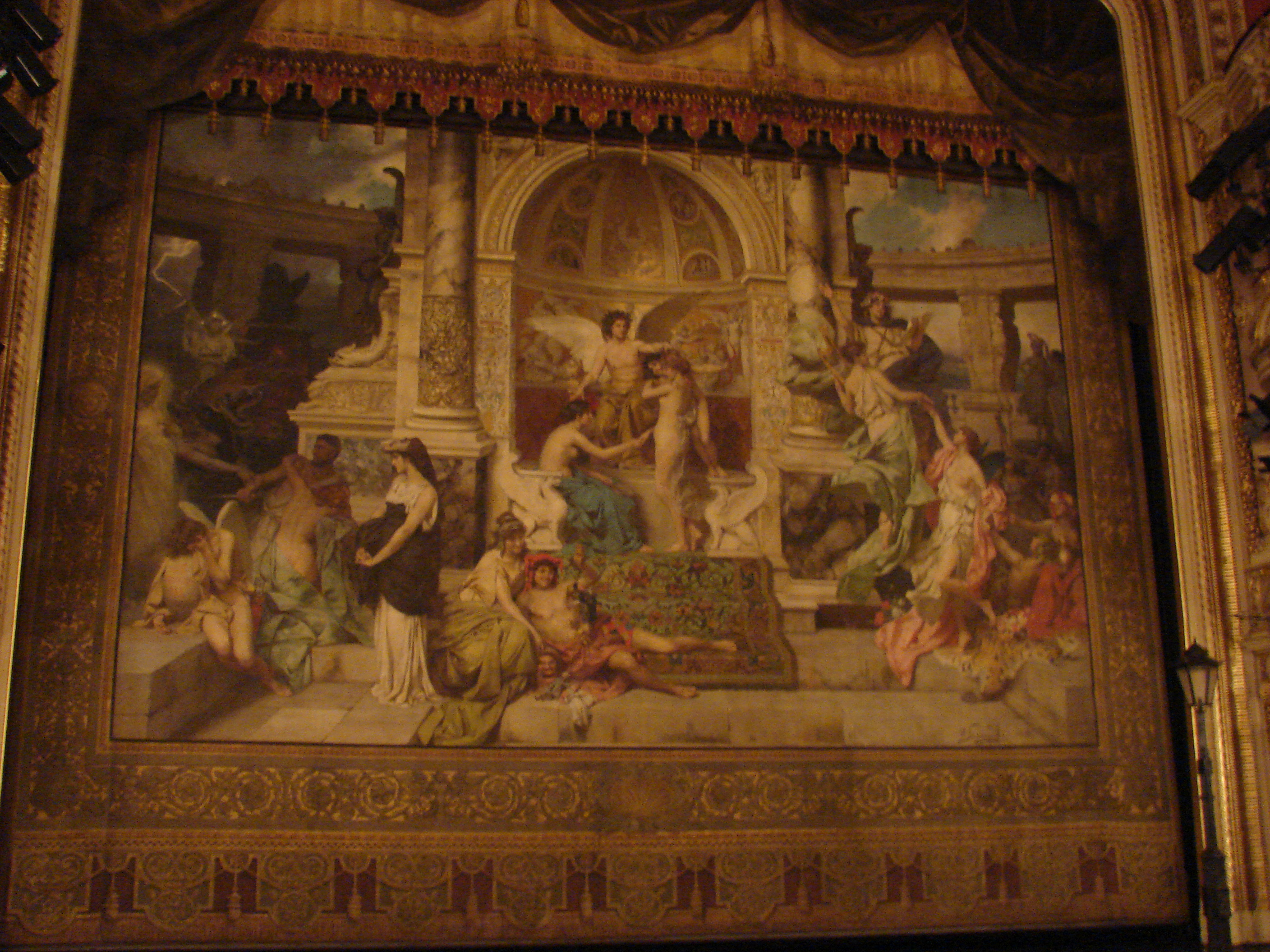 Juliusz Słowacki Theatre (curtain)